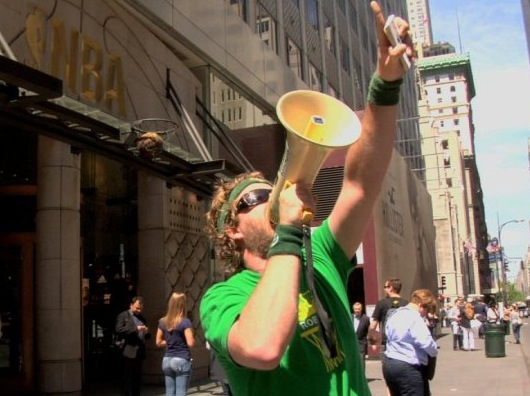 Sonicsgate director Jason Reid exposes truth via bullhorn outside the NBA flagship store in New York.